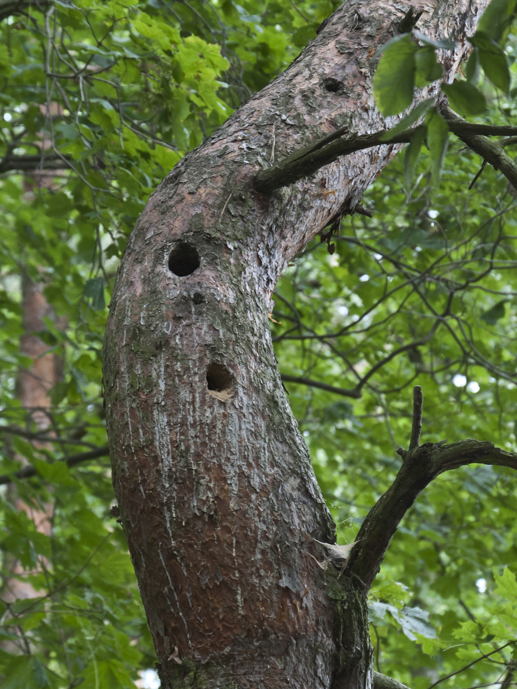 Woodpecker Holes